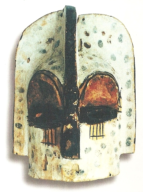 Bodi gabonese traditionnal mask from the Bakwele ethny